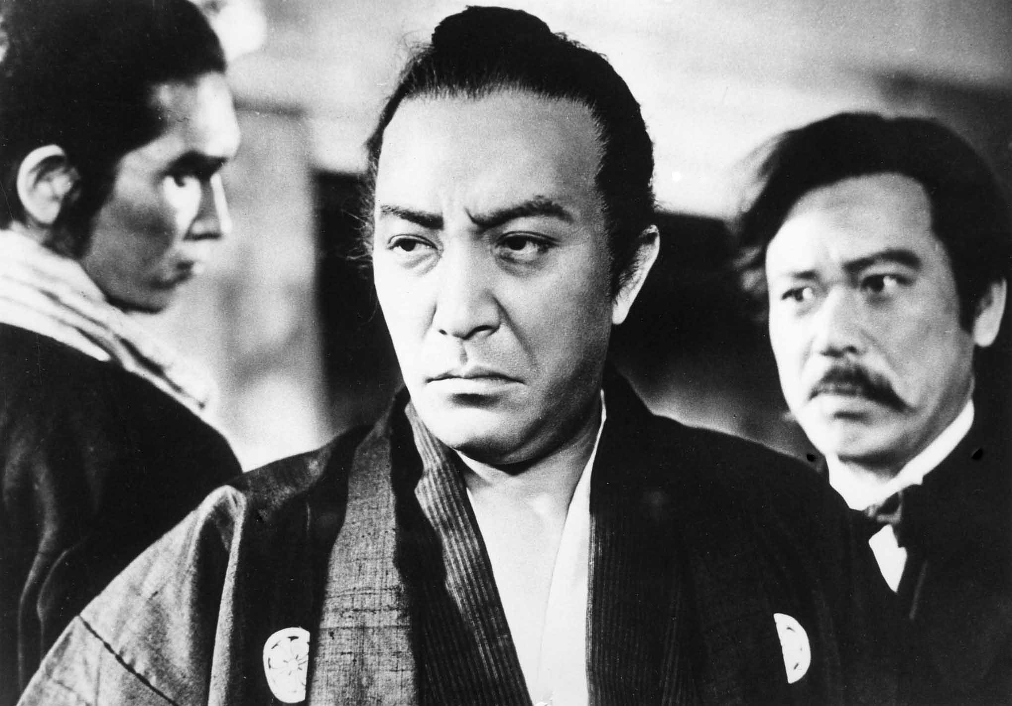 Tsumasaburō Bandō (center) and Takashi Shimura (right) in Edo saigo no hi (江戸最後の日) directed by Hiroshi Inagaki - 1941